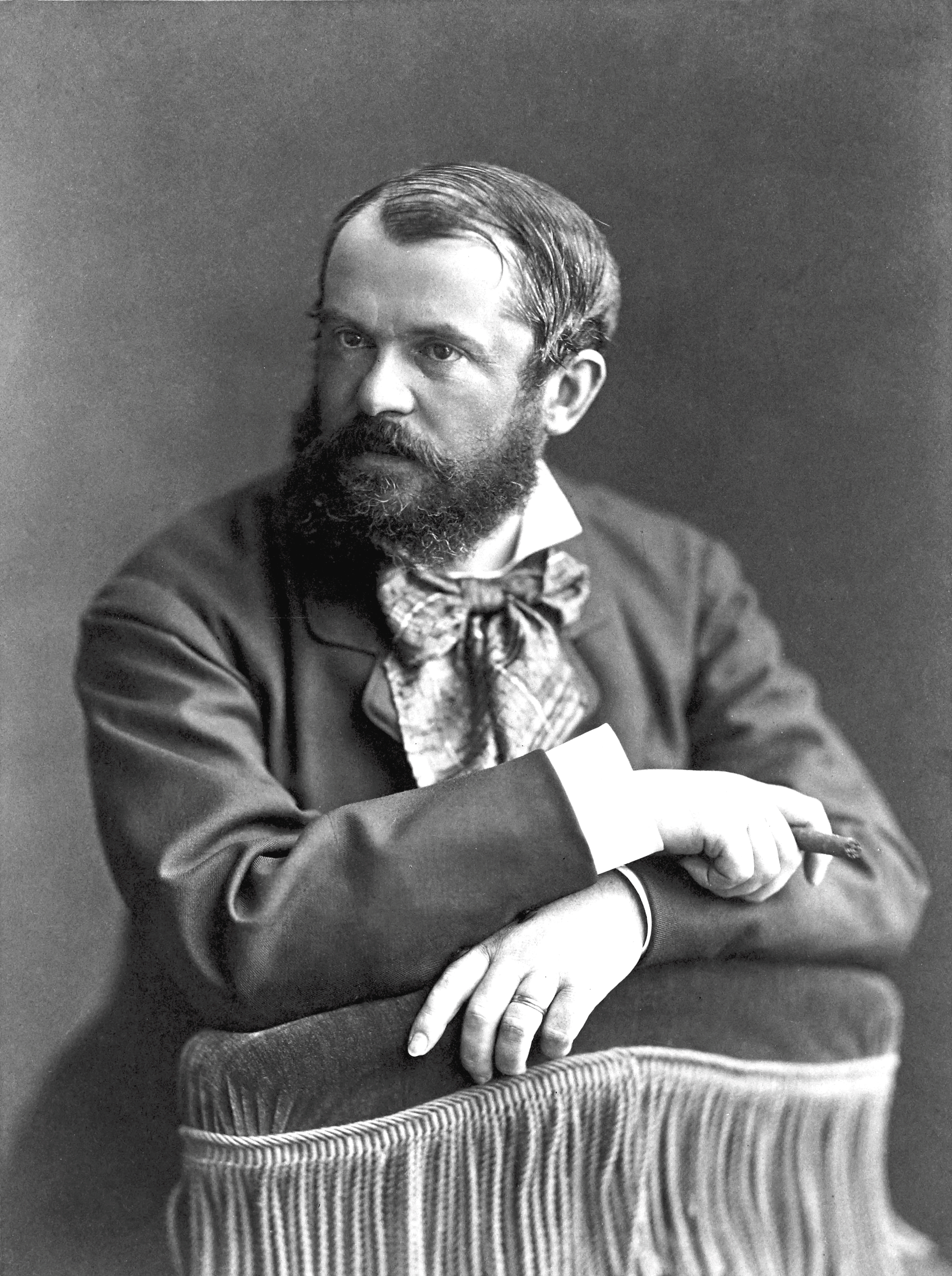 French painter and writer Gustave Droz (1832-1895) photographed by Nadar.